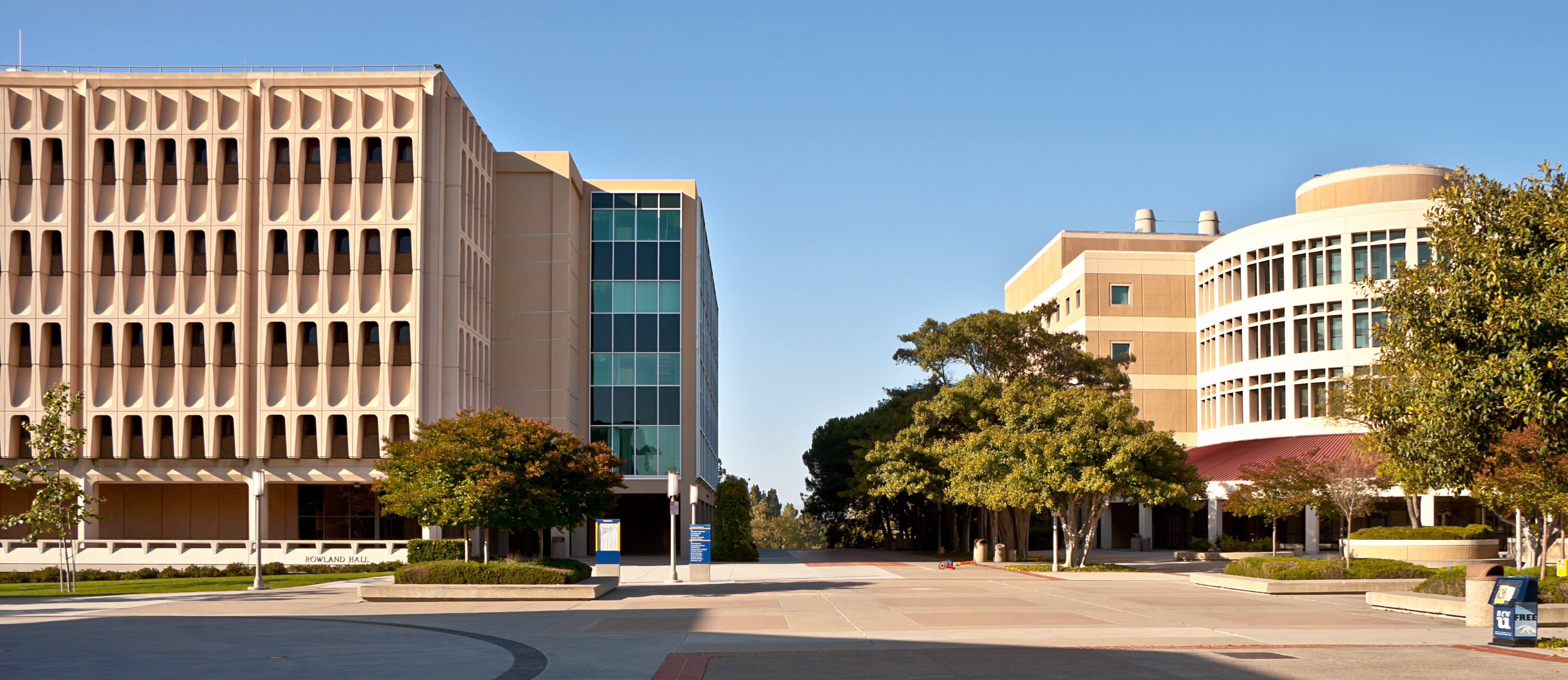 The science plaza at the University of California, Irvine. On the left is Rowland Hall and on the right is Reines Hall; the buildings are named after Sherwood Rowland and Frederick Reines, two UCI scientists who won the Nobel prizes in chemistry and physics respectively in 1995.